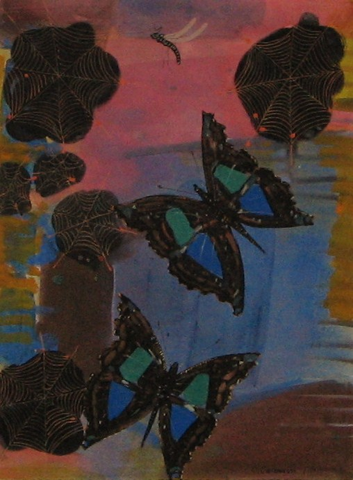 Corrado Carmassi, Farfalle, 1971